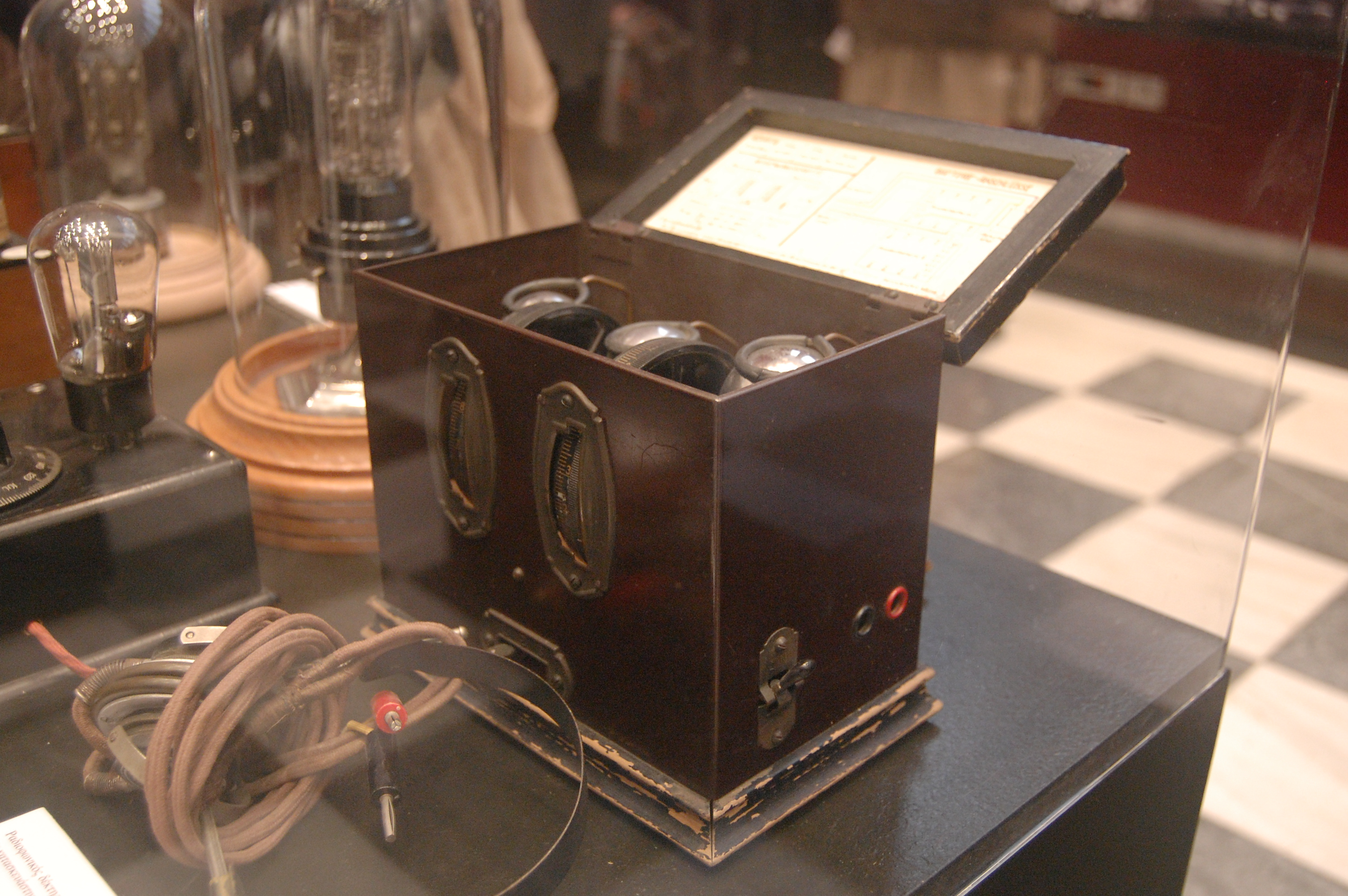 A Telefunken Arcolette early vacuum tube radio receiver. Made in Germany, 1928. The tops of the tubes are visible inside.